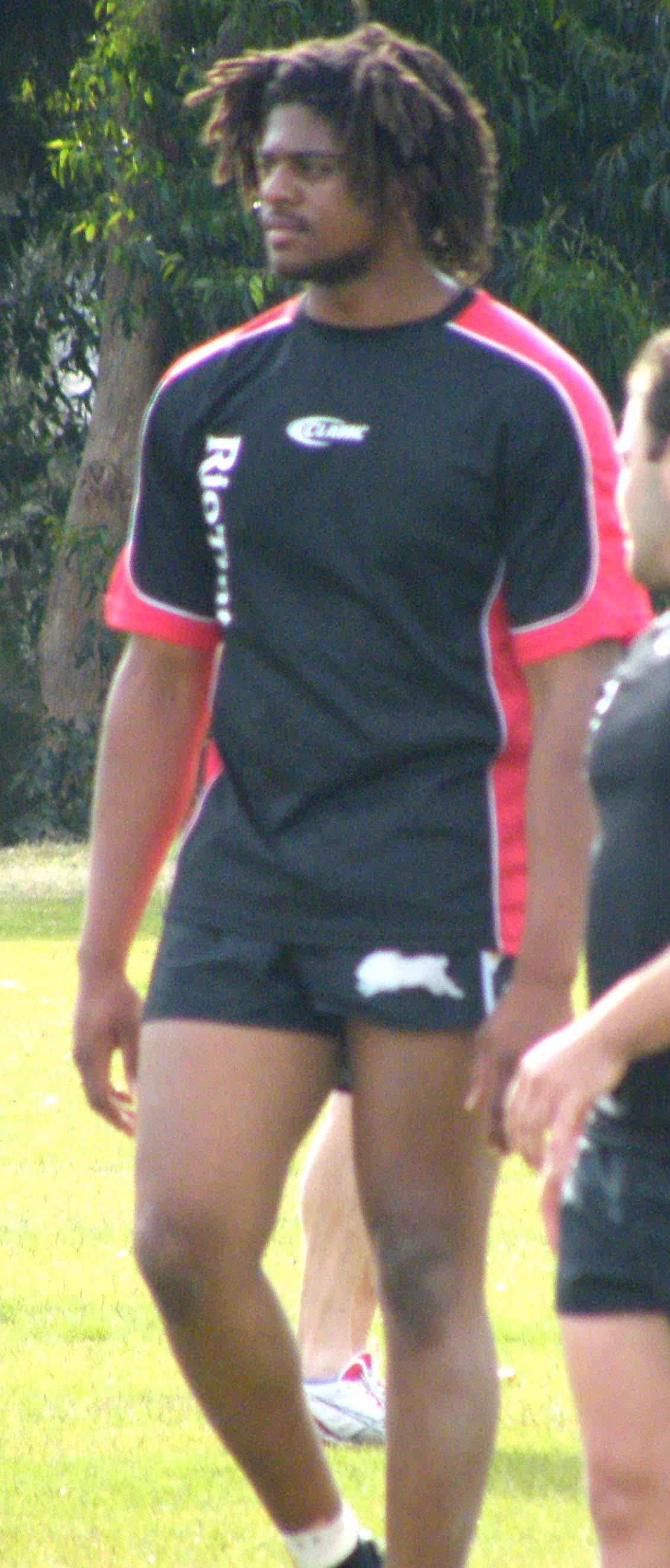 Training Session - South Sydney Rabbitohs - 2016.